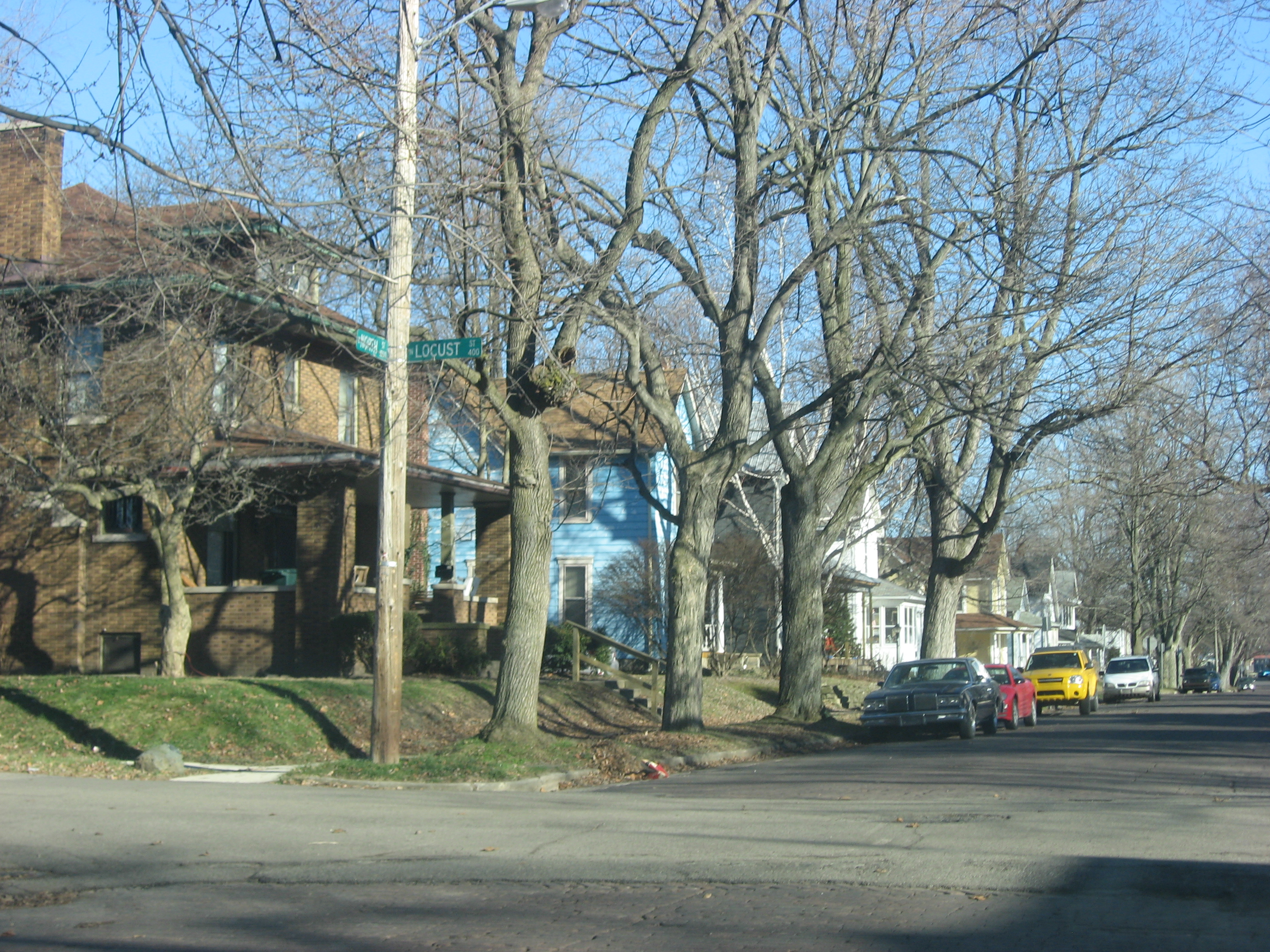 Houses on the northern side of North Street just east of the Locust Street junction in Muncie, Indiana, United States. This neighborhood is part of the Riverside Historic District, a historic district that is listed on the National Register of Historic Places.